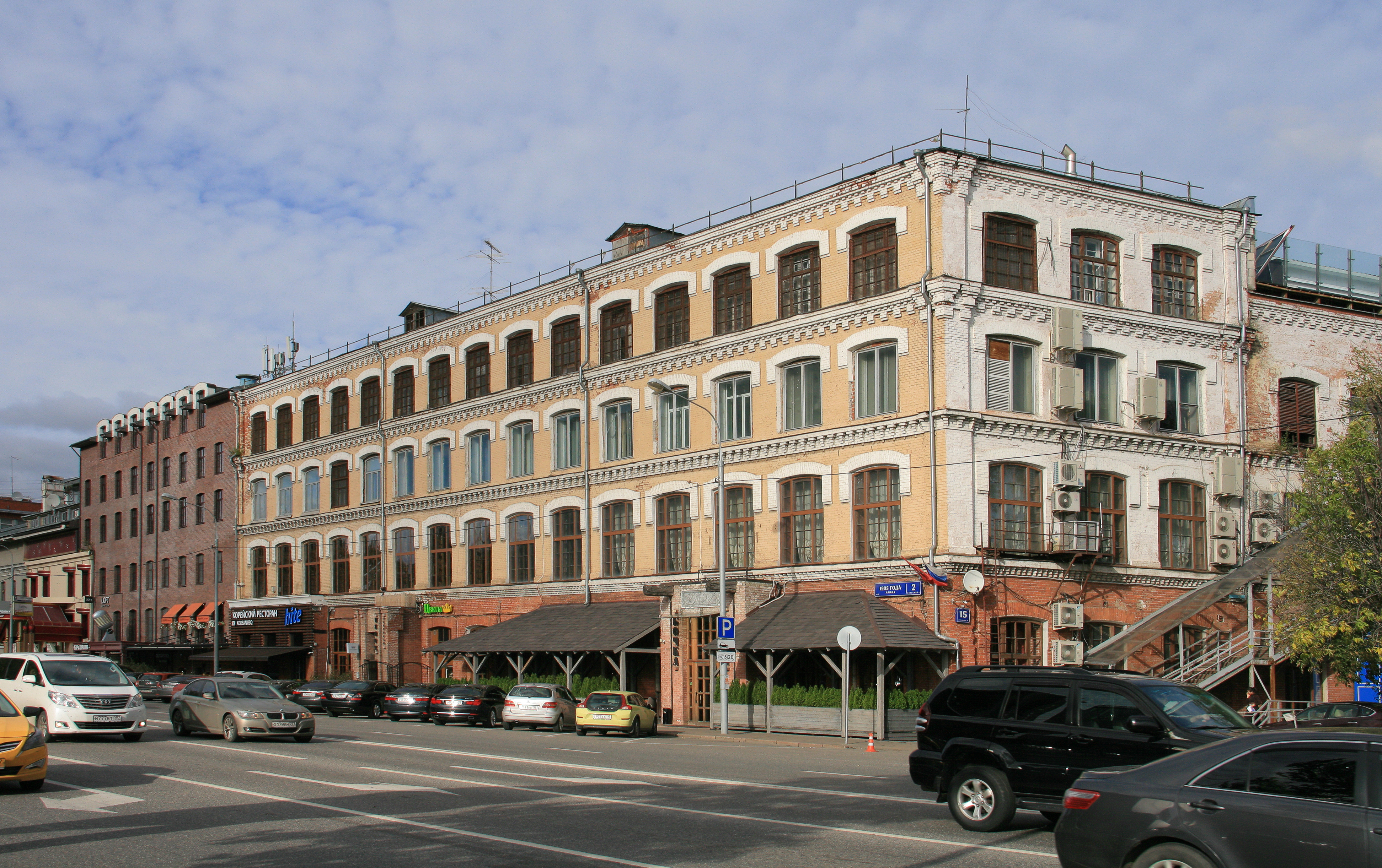 Tryokhgorny Manufactory, 1905 Goda Street 2, Moscow, Russia